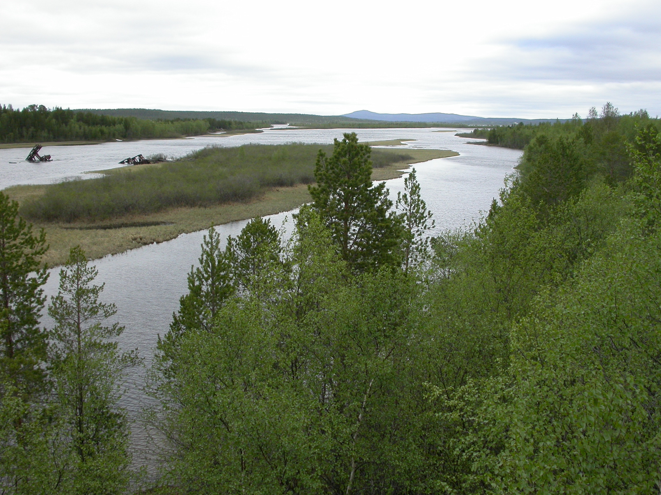 Pasvik Zapovednik, River Paz This image is related to the protected area of Russia number 5100110